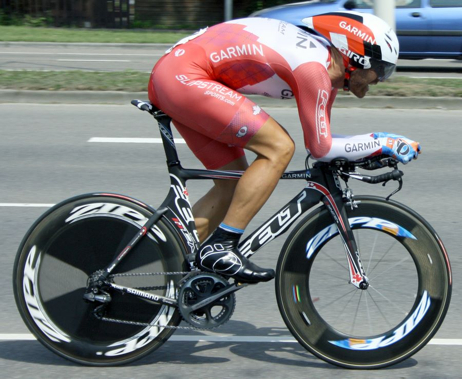 Svein Tuft at the 2009 Eneco Tour prologue